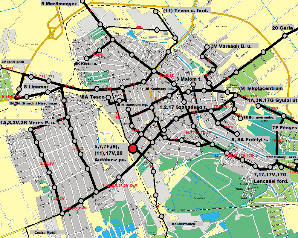 Public transport lines in the city of Bekescsaba (2012)